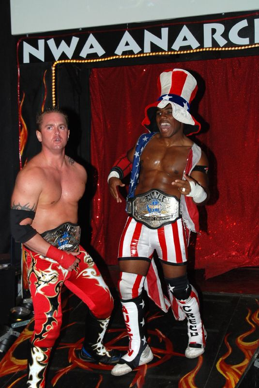 Anarchy Tag Team Champions: Awesome Attraction: Hayden Young & Austin Creed